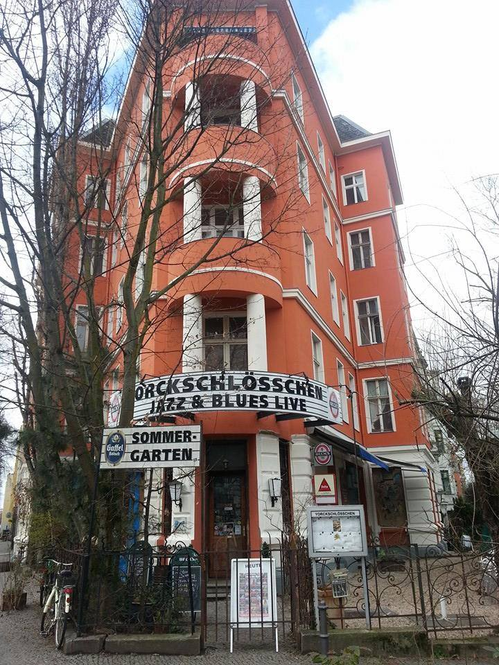 Yorckschlösschen Home of JAZZ Berlin Kreuzberg